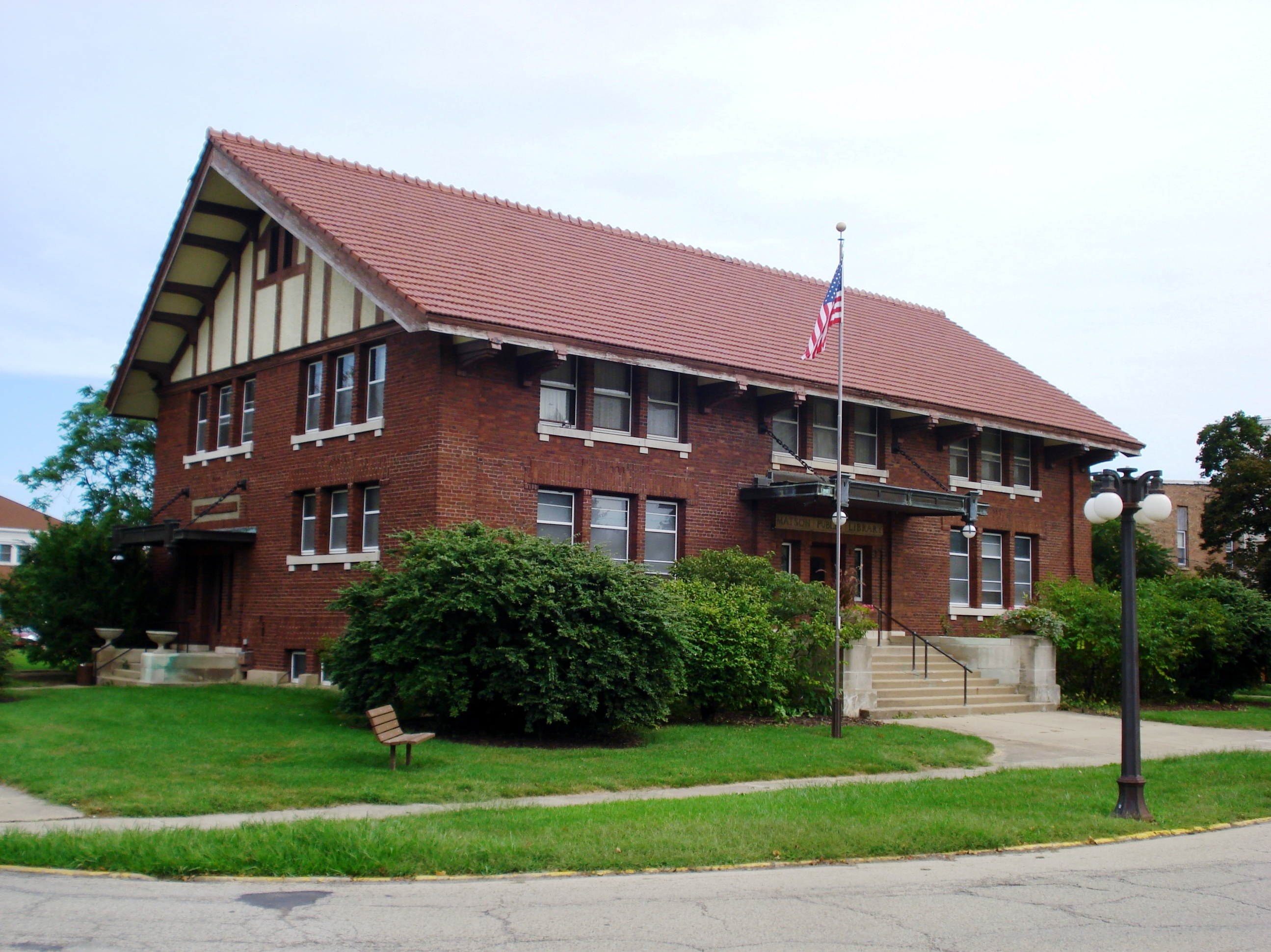 Matson Public Library in Princeton, Illinios